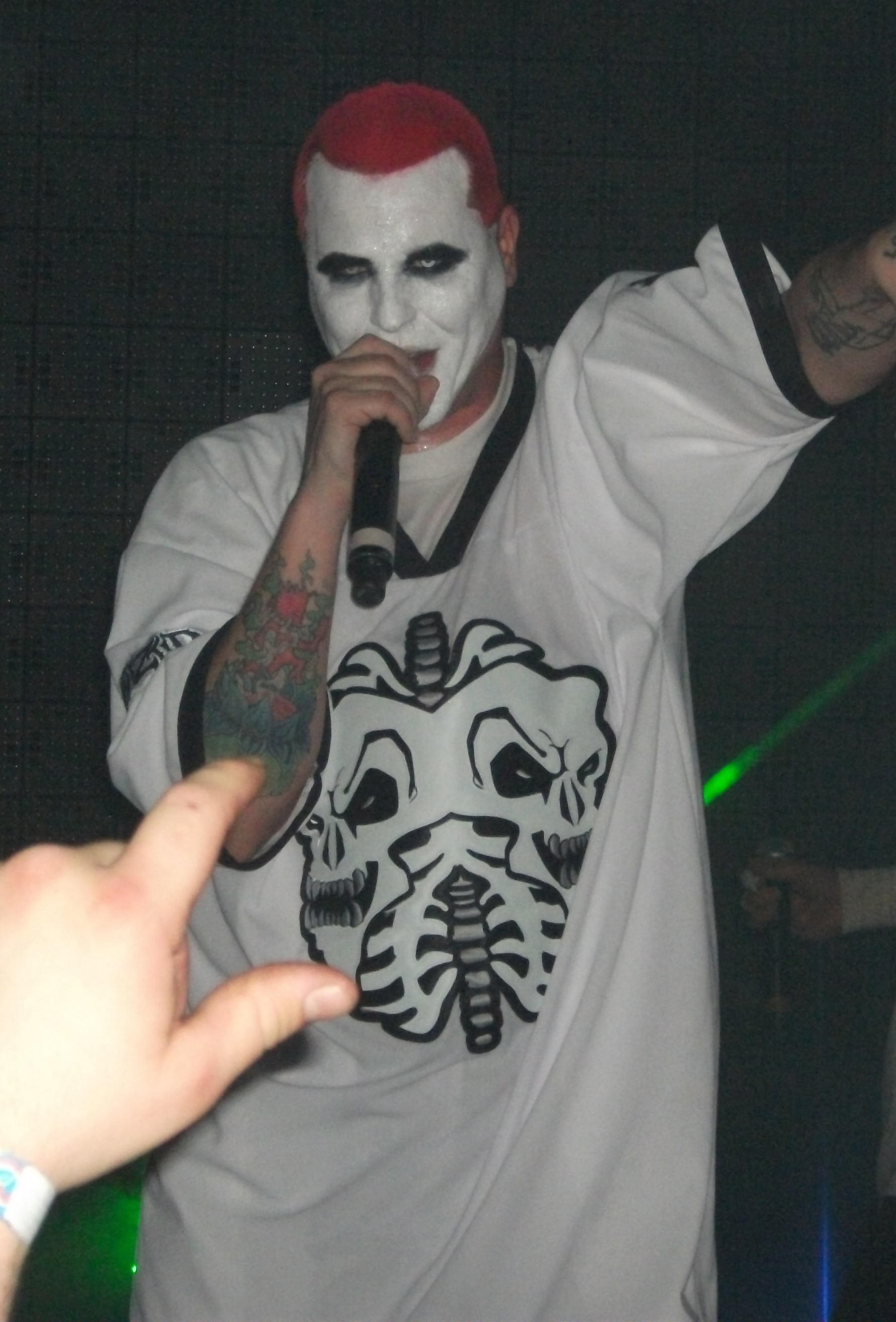 Monoxide Child at the Abominationz tour in Chesterfield, MI on April 27th, 2013.